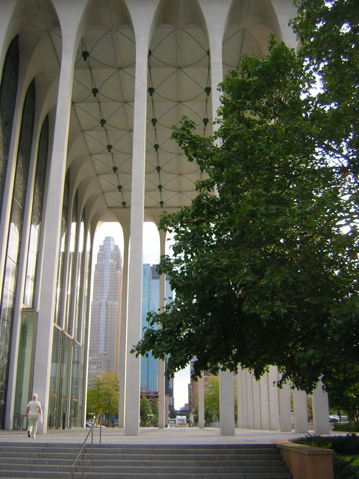 Part of ING Group framing Wells Fargo in Minneapolis, Minnesota